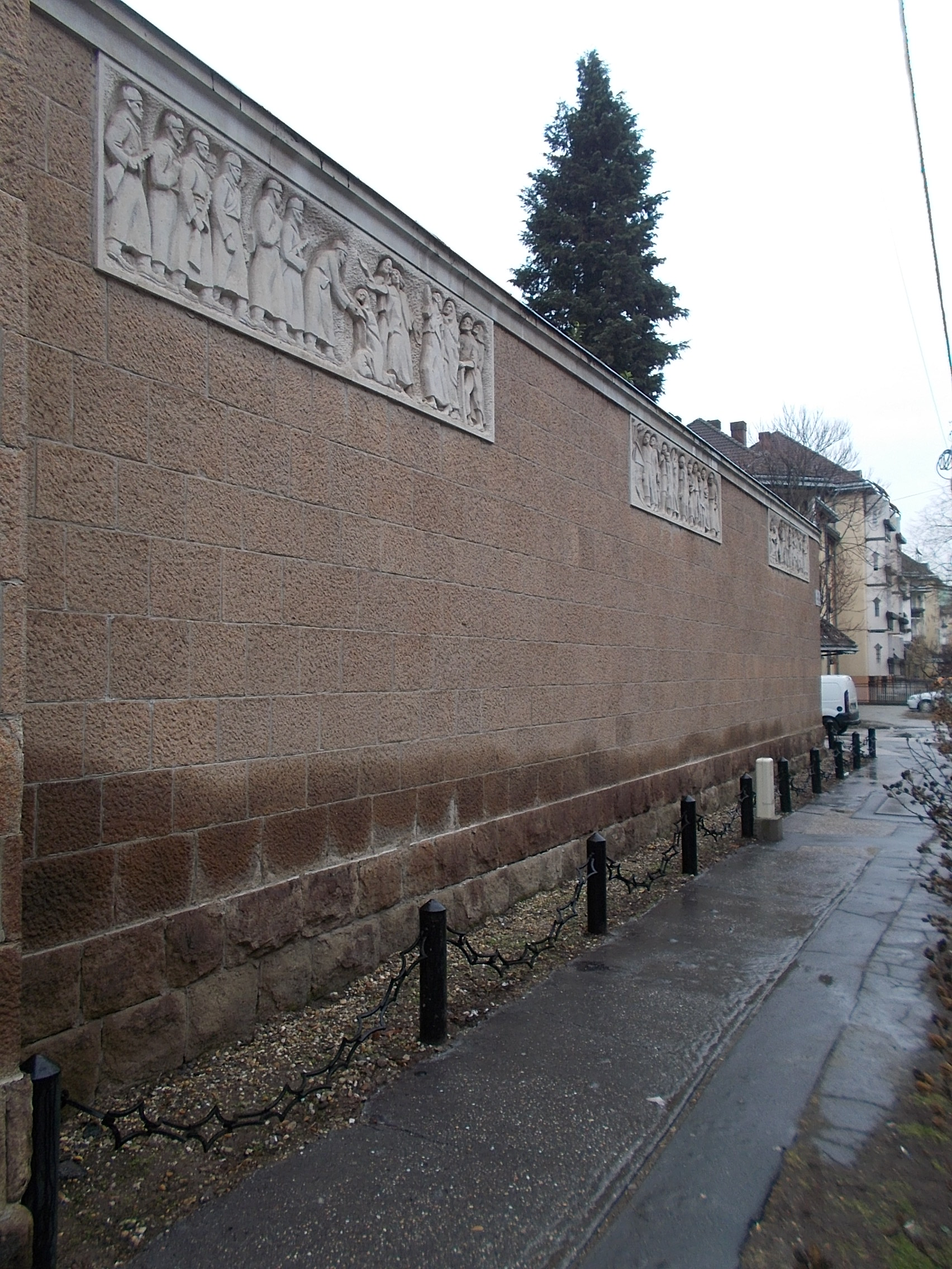 Újpest Synagogue, Újpest Jewish martyrs memorial wall/fence/reliefs. - Berzeviczy Gergely utca, Újpest neighbourhood, 4th District of Budapest.